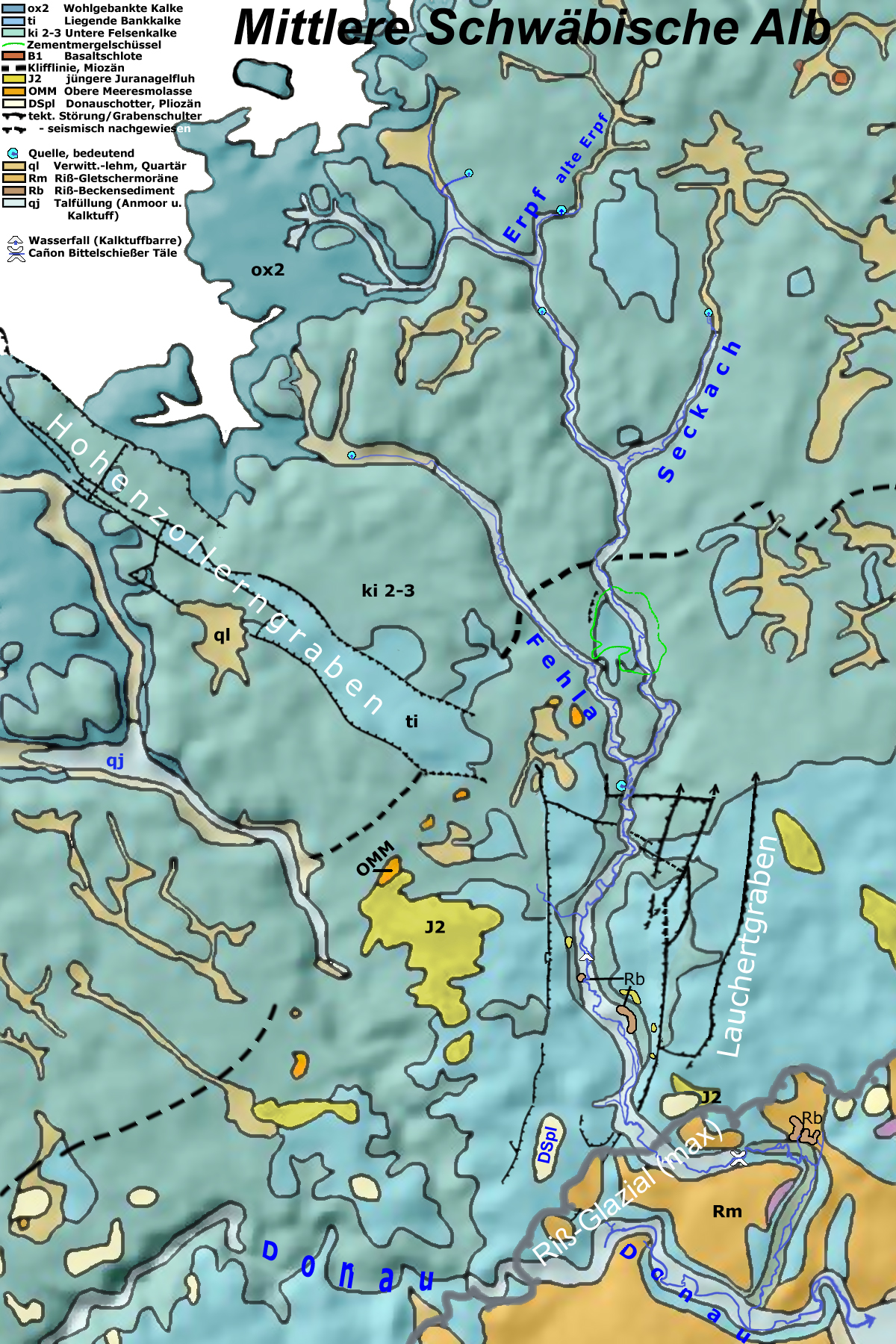 Geological map of the Middle Swabian Alb. The map focuses on one of the very few remaining geo-historically important Upper Danube tributaries, river Lauchert of miocene origin with its major tributary Fehla. Even after 5 Million years of danube-oriented karst, river Lauchert did not totally go underground. When the miocene-pliocene tectonics formed the N-S graben "Lauchertgraben", river Lauchert, which already existed, formed its bed within the graben.